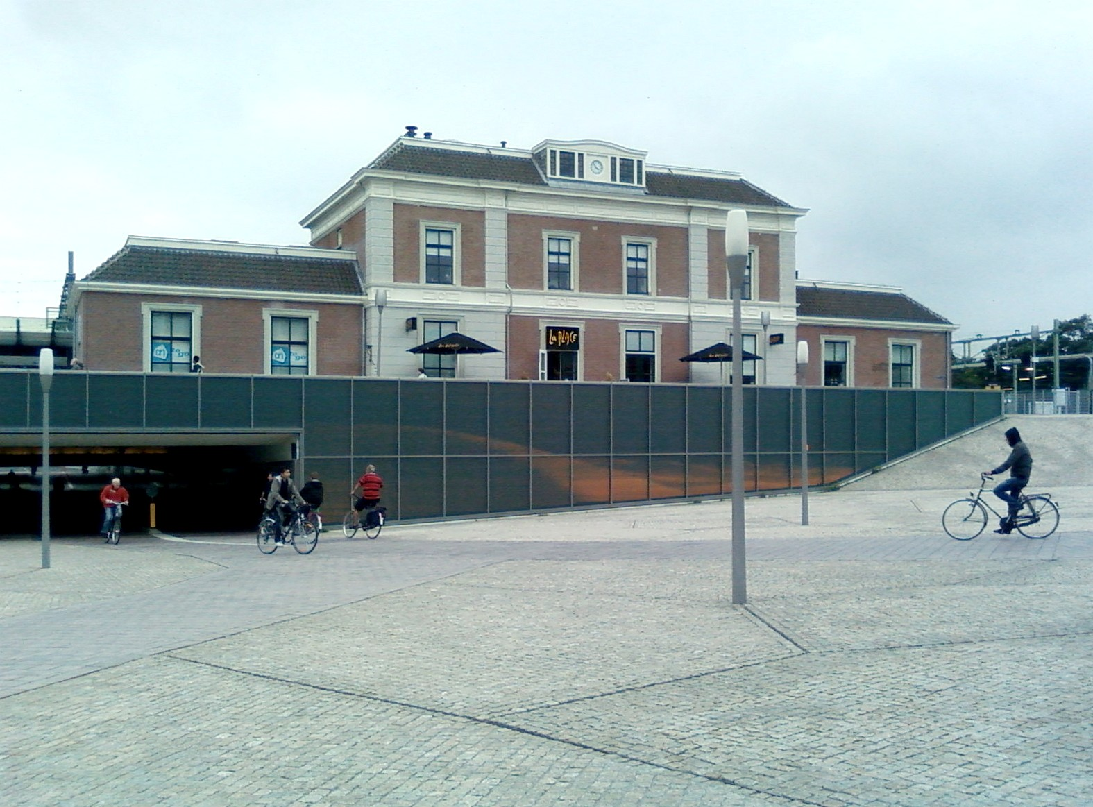 A photograph of the renewed train station in Apeldoorn (Gelderland, the Netherlands). This picture was taken op 21 july, 2008 with a Samsung E900 phone.